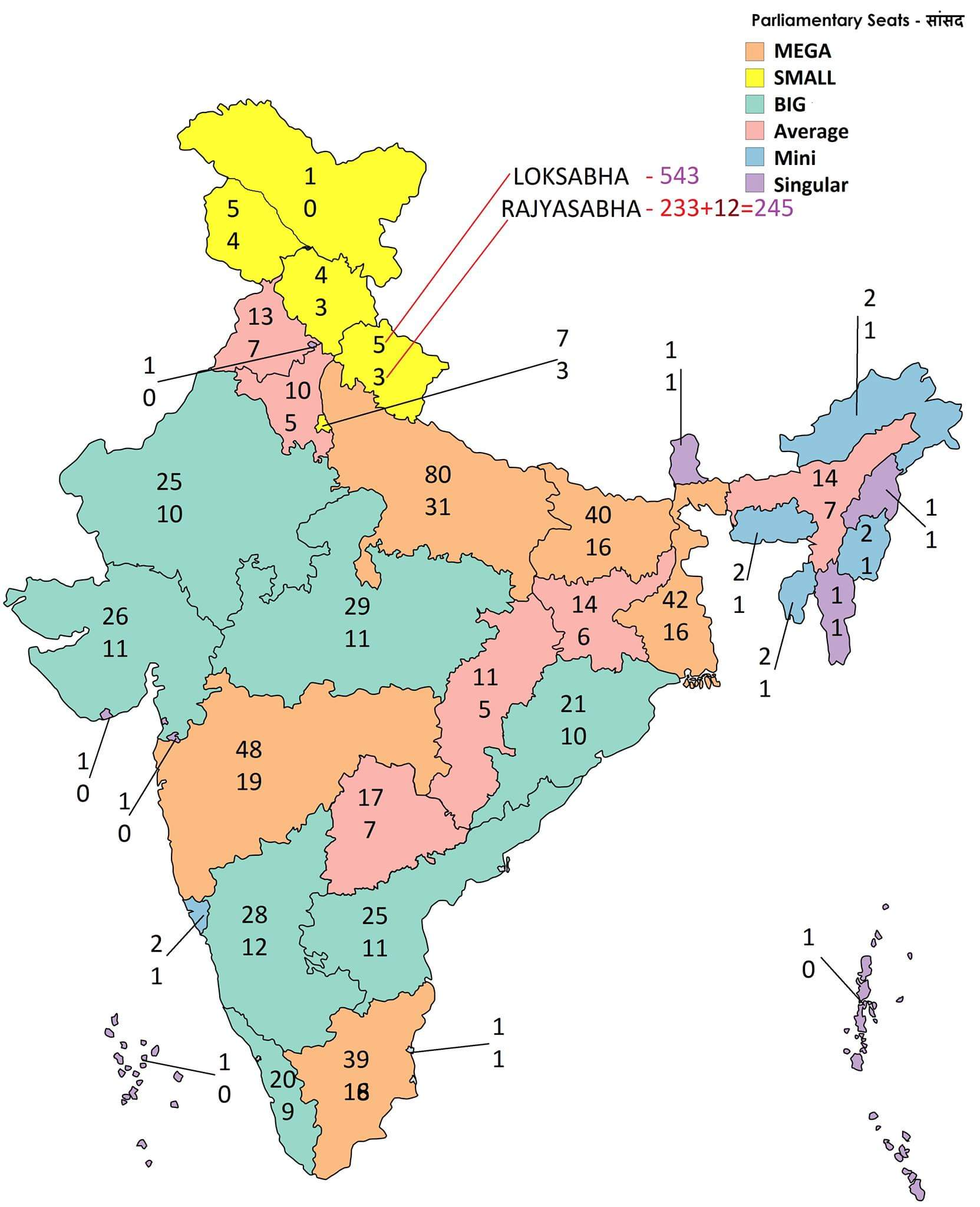 Seat Share